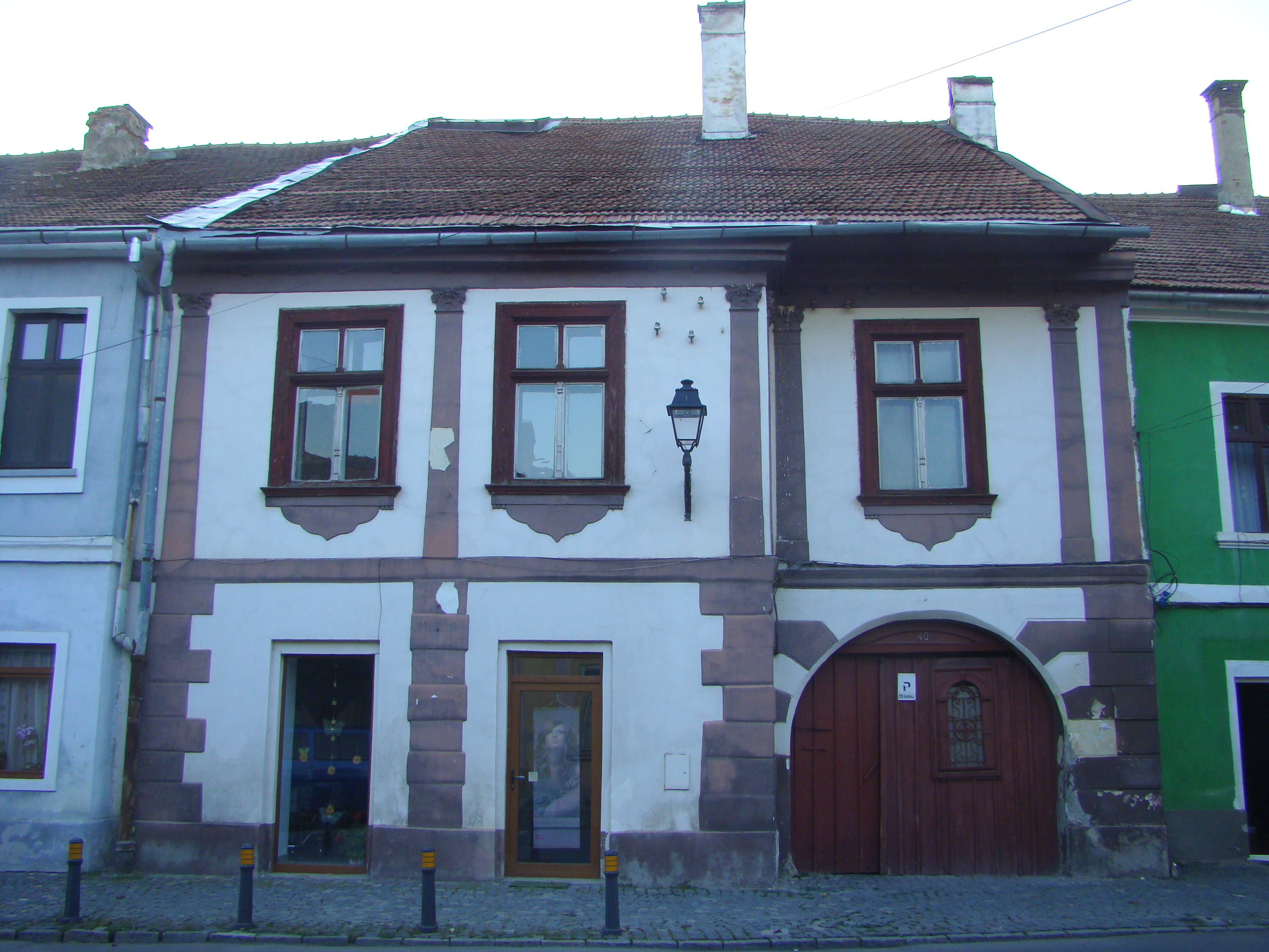 House, historic monument, in Bistrița, Nicolae Titulescu street 40